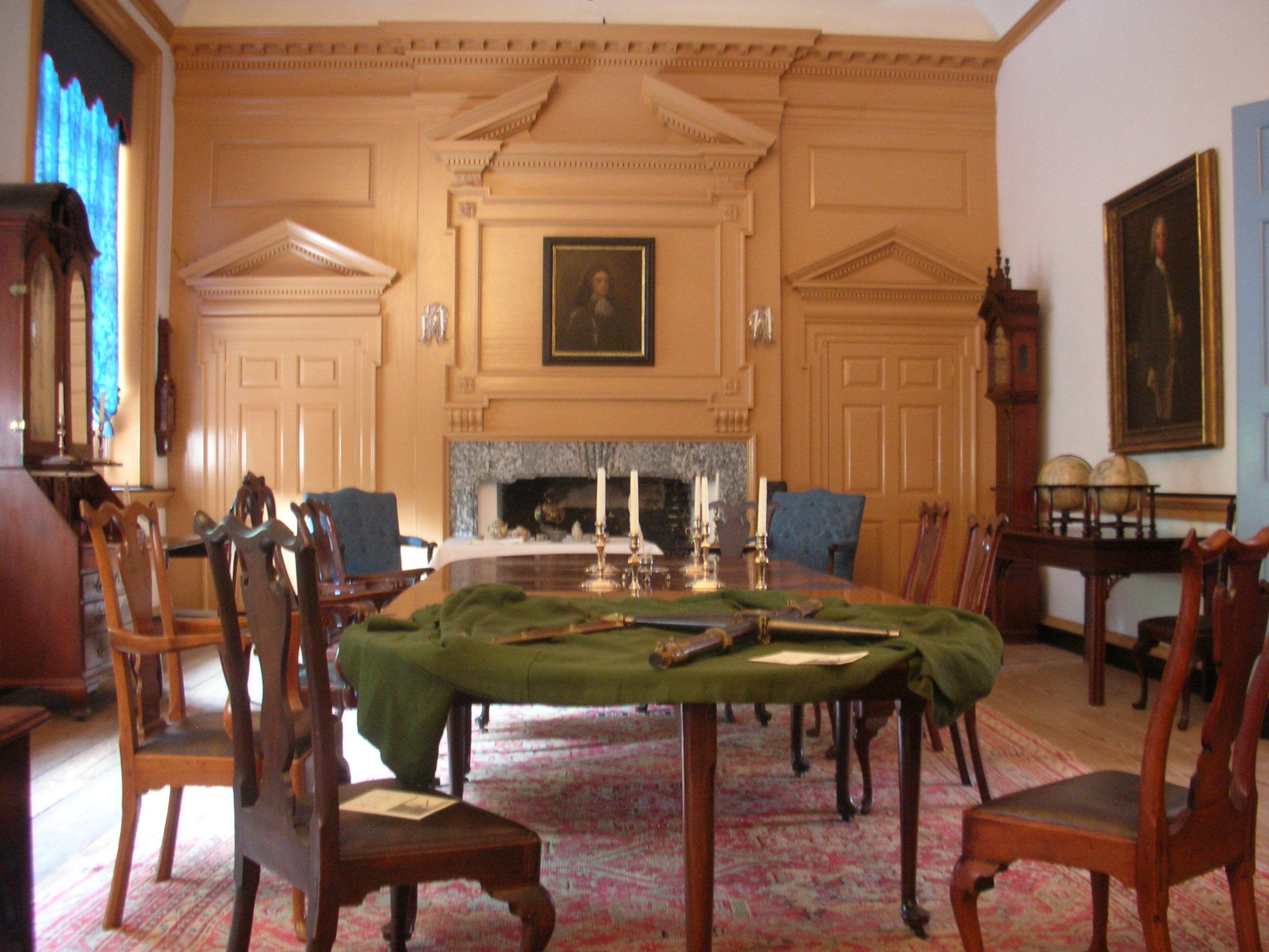 Inside Independence Hall in Philadelphia, USA